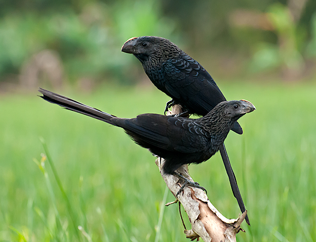 Two Smooth-billed Anis in Registro, São Paulo, Brazil.